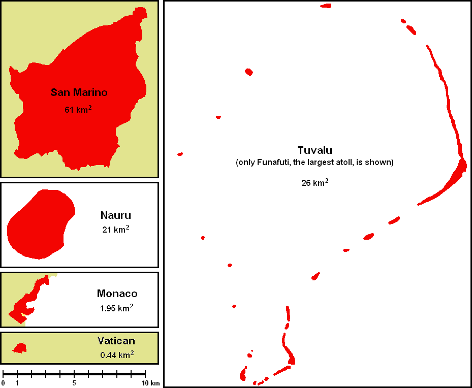 The world's five smallest sovereign states compared by size.